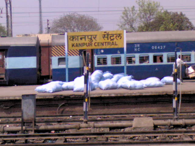 Rail Station, Kanpur Central